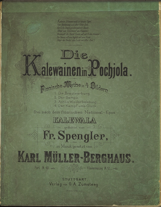 Title page for Karl Müller-Berghaus’ opera Die Kalewainen in Pochjola.